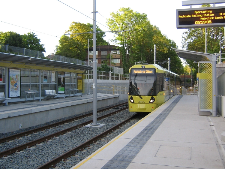 This Metrolink tram was the first scheduled passenger service to stop at West Didsbury, at 5.53 a.m. on 23 May 2013